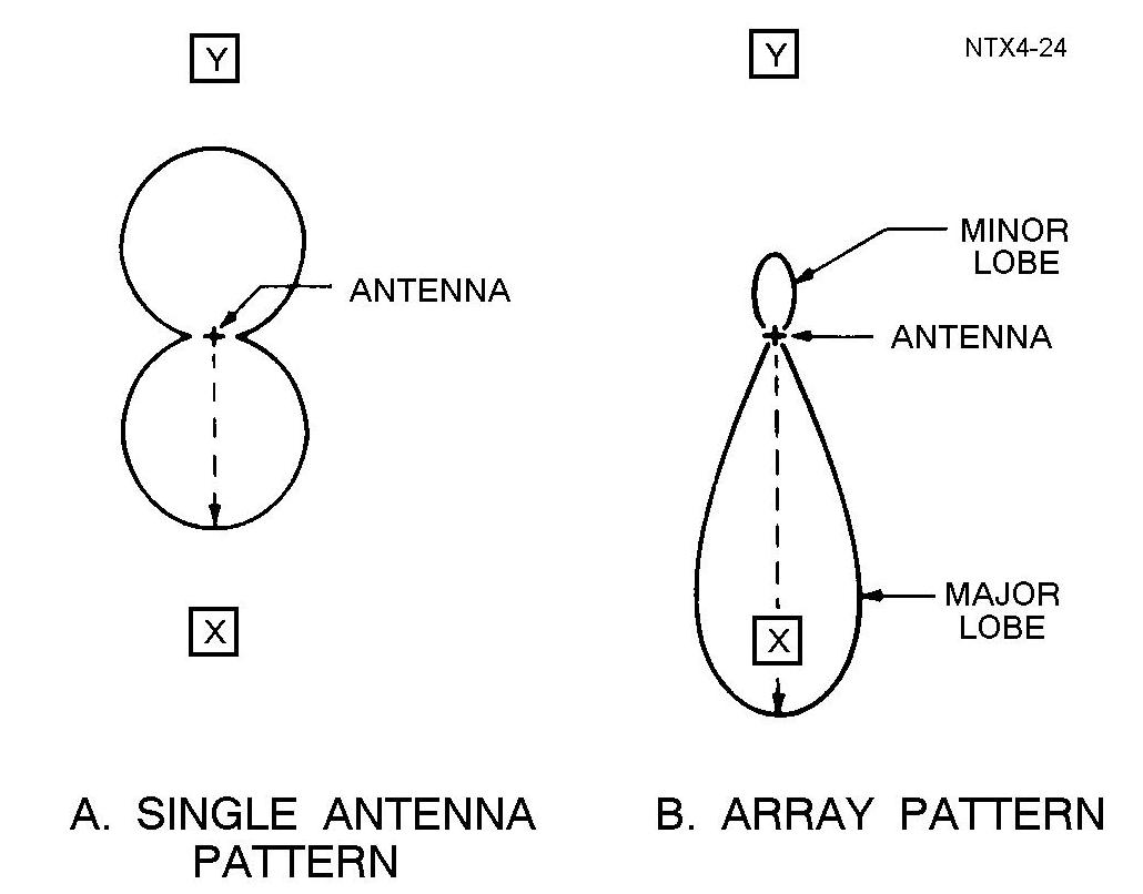 Covers a basic introduction to antennas and wave propagation. It includes discussions about the effects of the atmosphere on rf communications, the various types of communications and radar antennas in use today, and a basic discussion of transmission lines and waveguide theory.